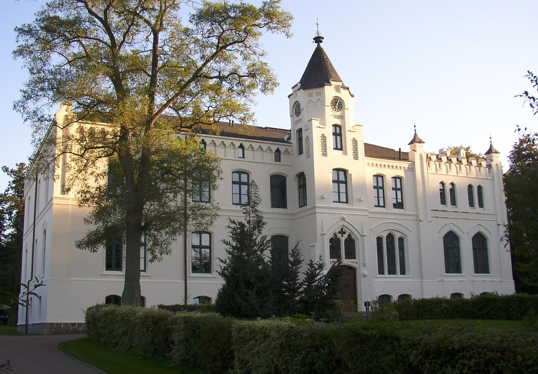 Manor in Behren-Lübchin-Viecheln in Mecklenburg-Western Pomerania, Germany